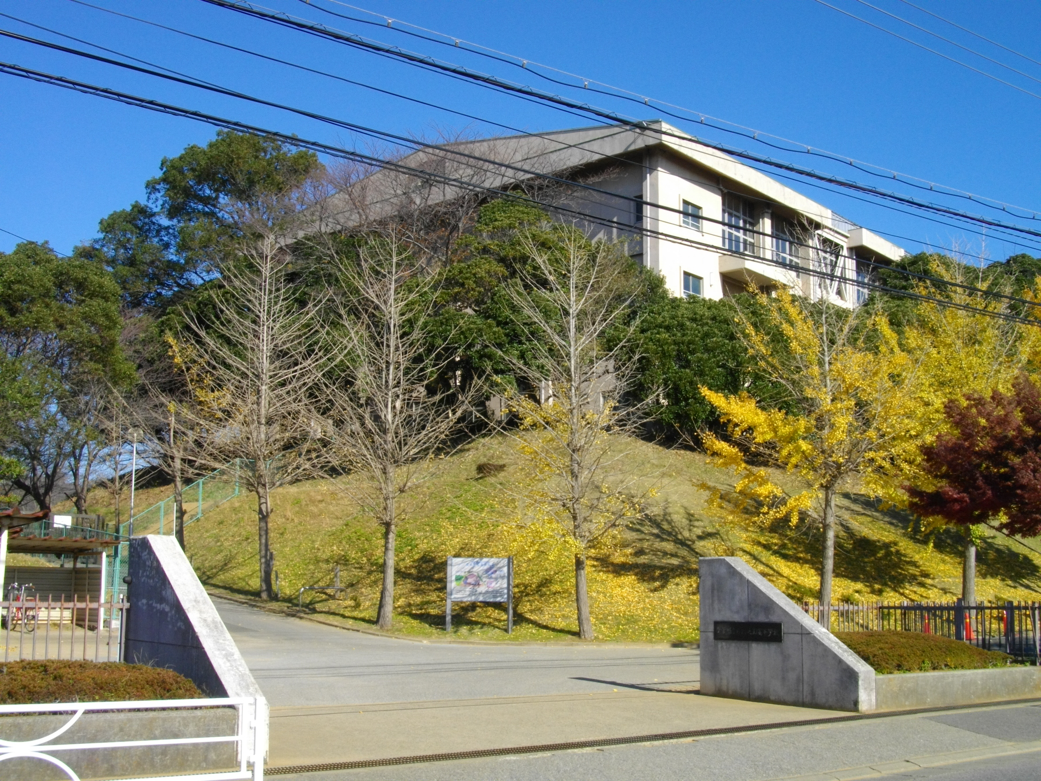 Funabashi-Shibayama High School